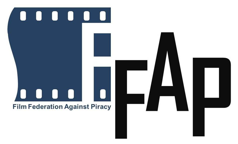 An official logo for FFAP(Film Federation Against Piracy)